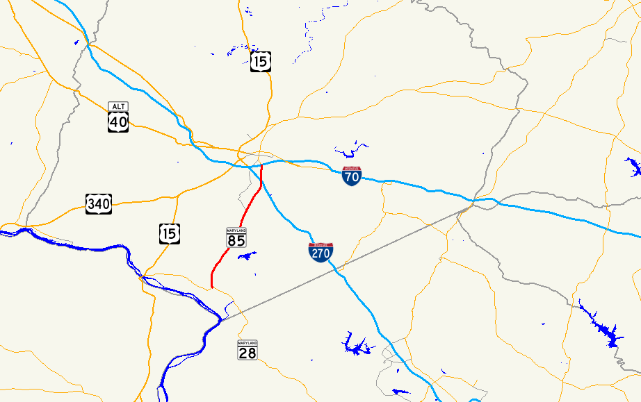 Map of Maryland Route 85